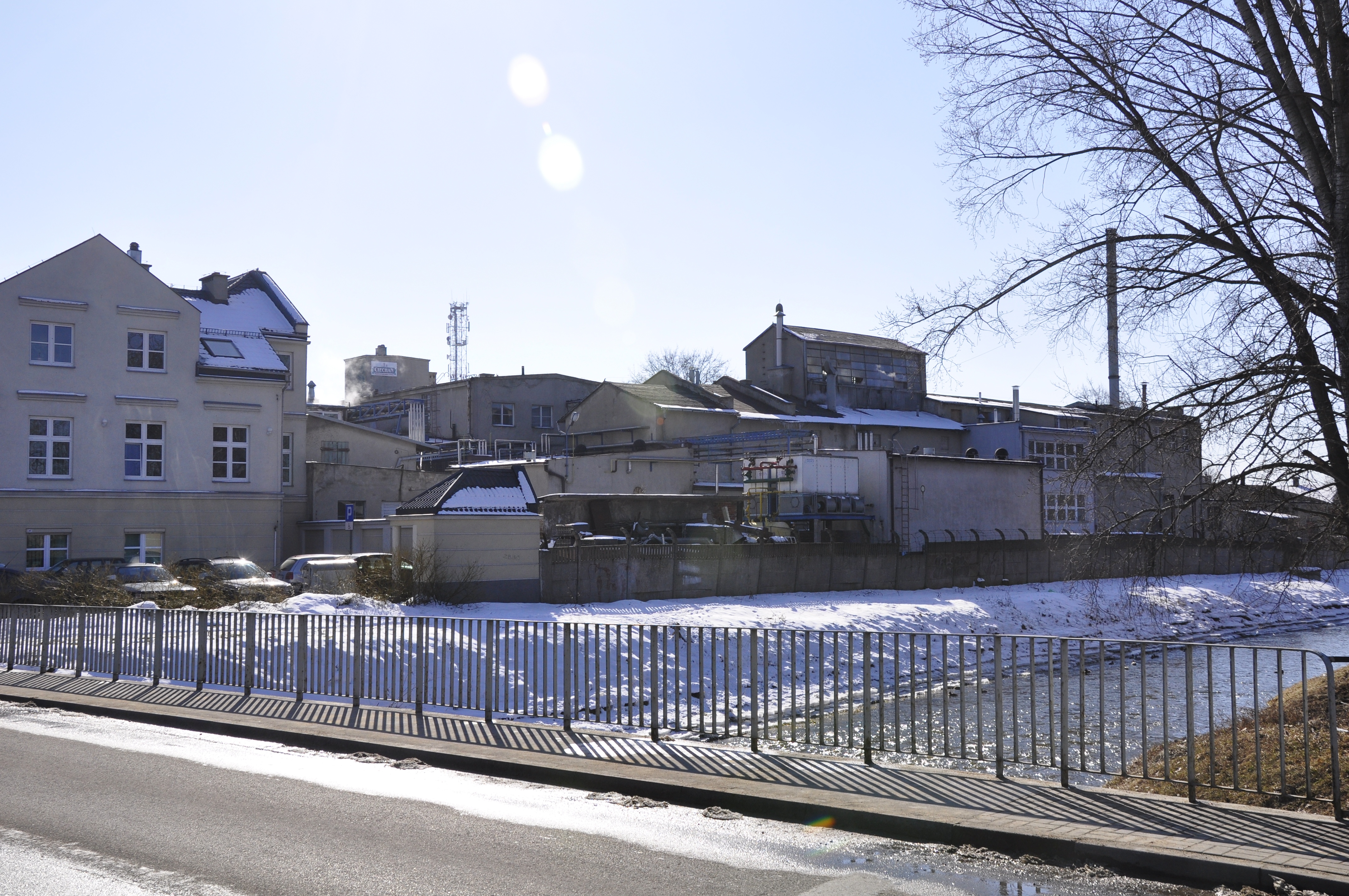 Ciechanow, Poland, brewery